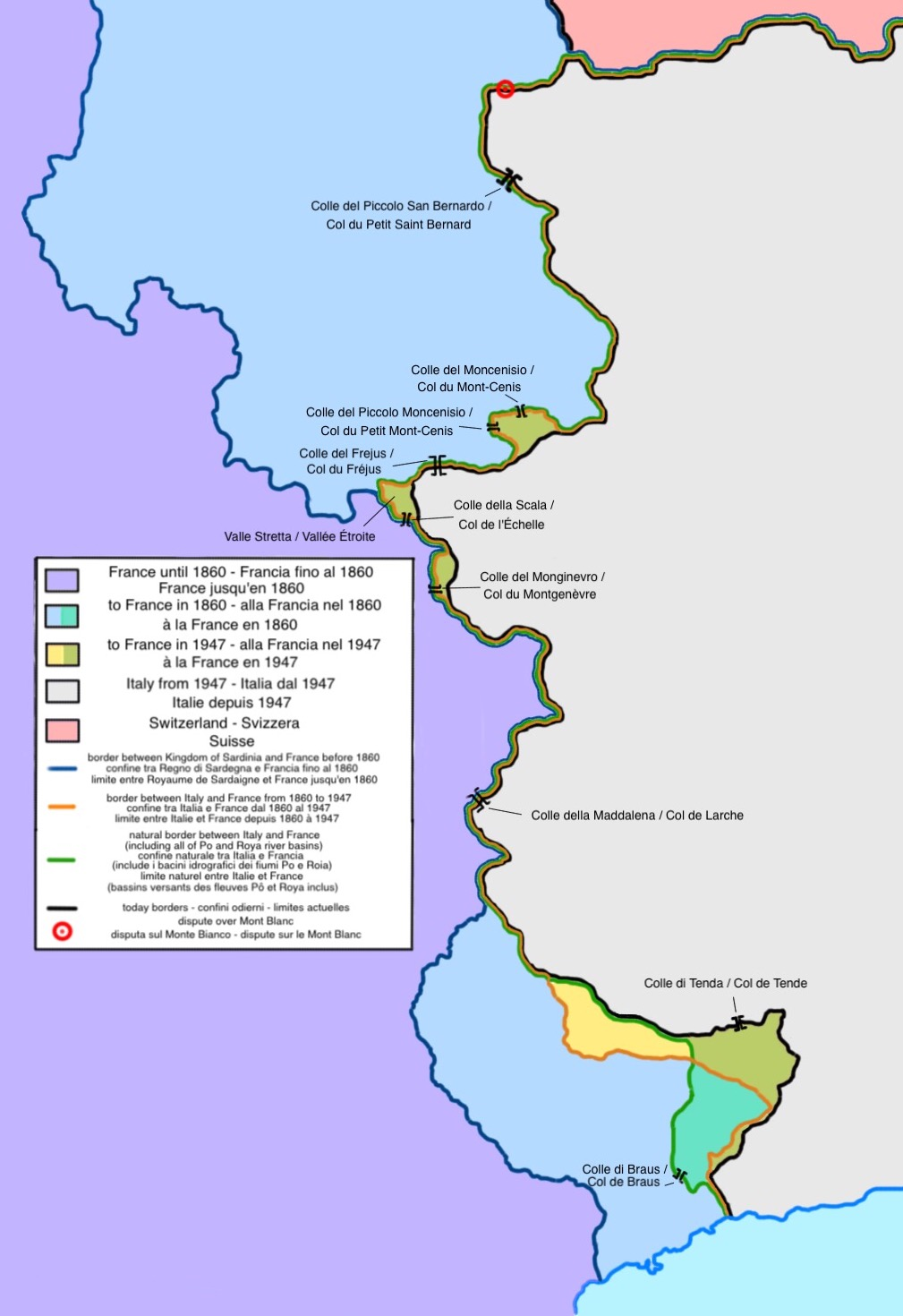 dynamics involving Franco-Italian border from 1859 to 1947